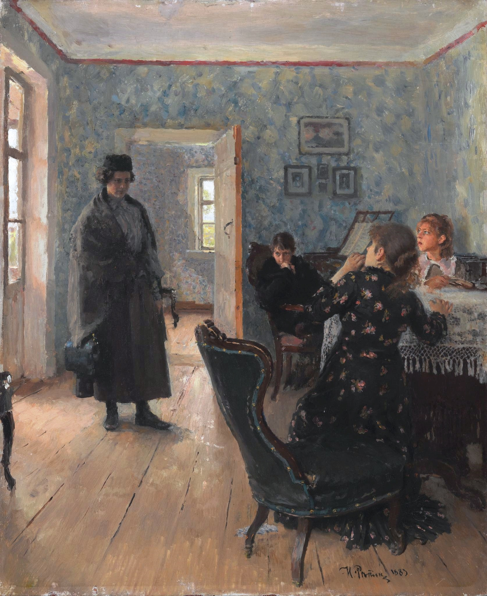 Unexpected Visit. First version.